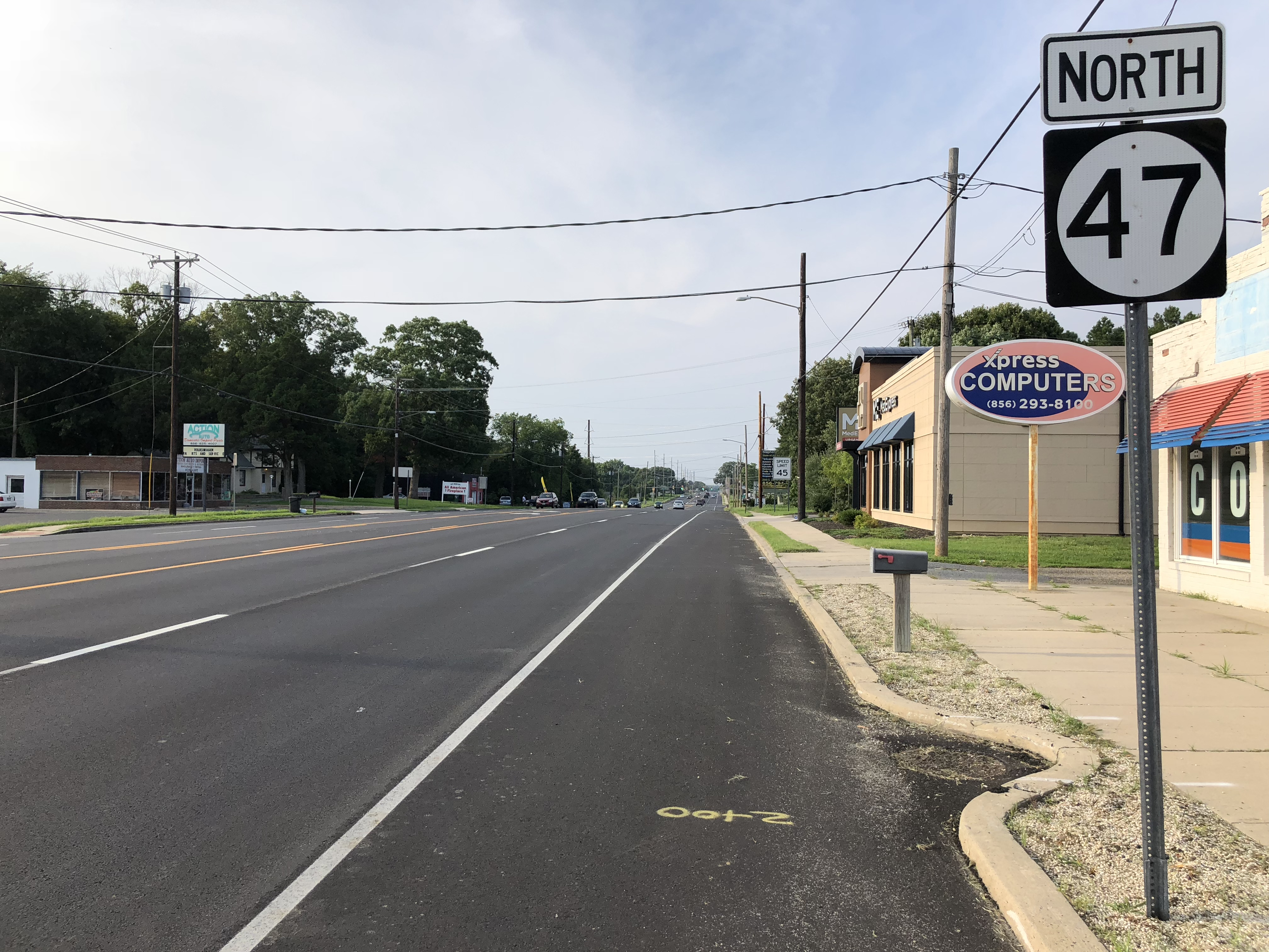 View north along New Jersey State Route 47 (Delsea Drive) at Rutgers Drive in Vineland, Cumberland County, New Jersey